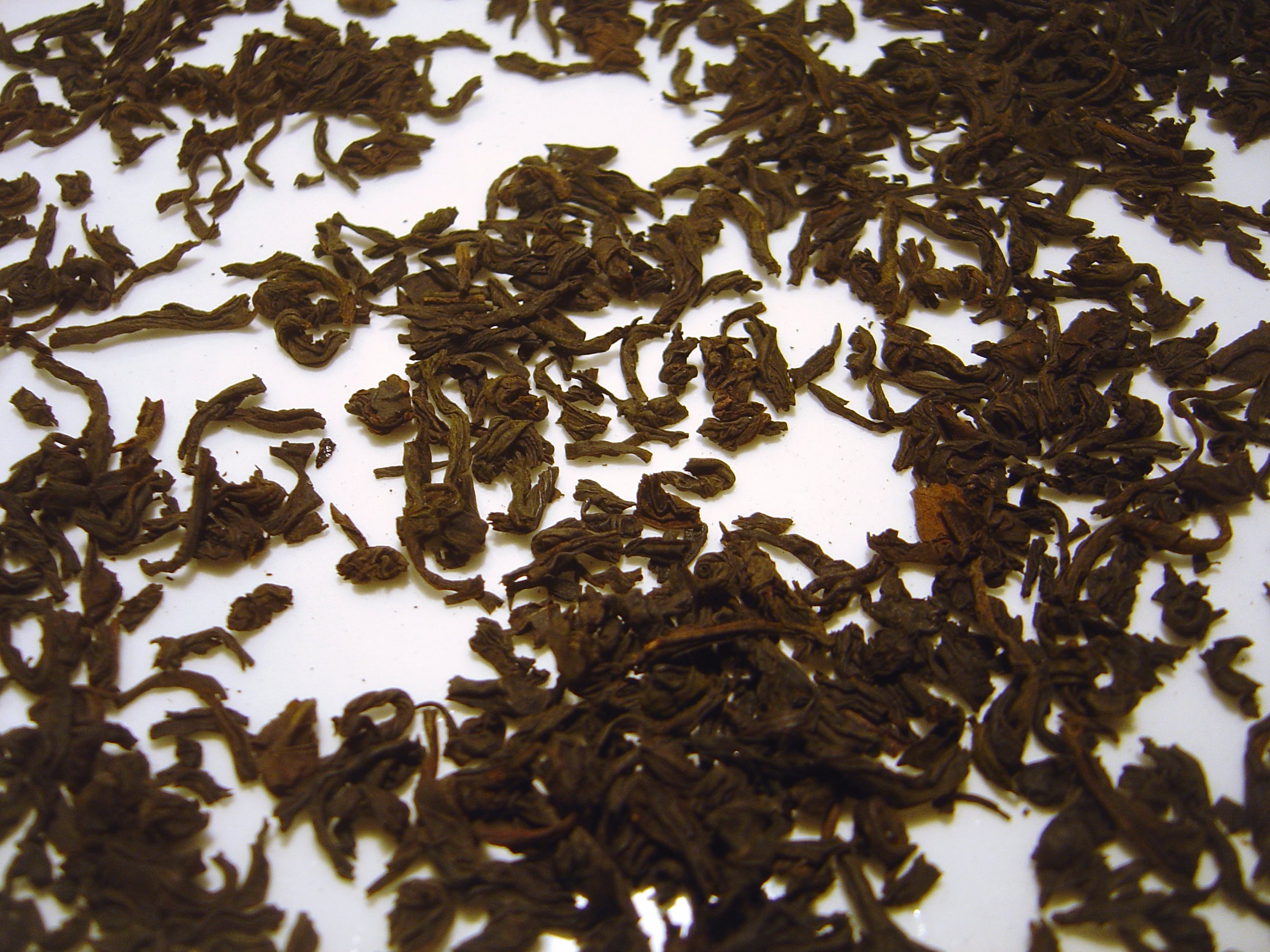 Lapsong souchong tea